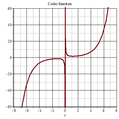 Coshc function 2D plot